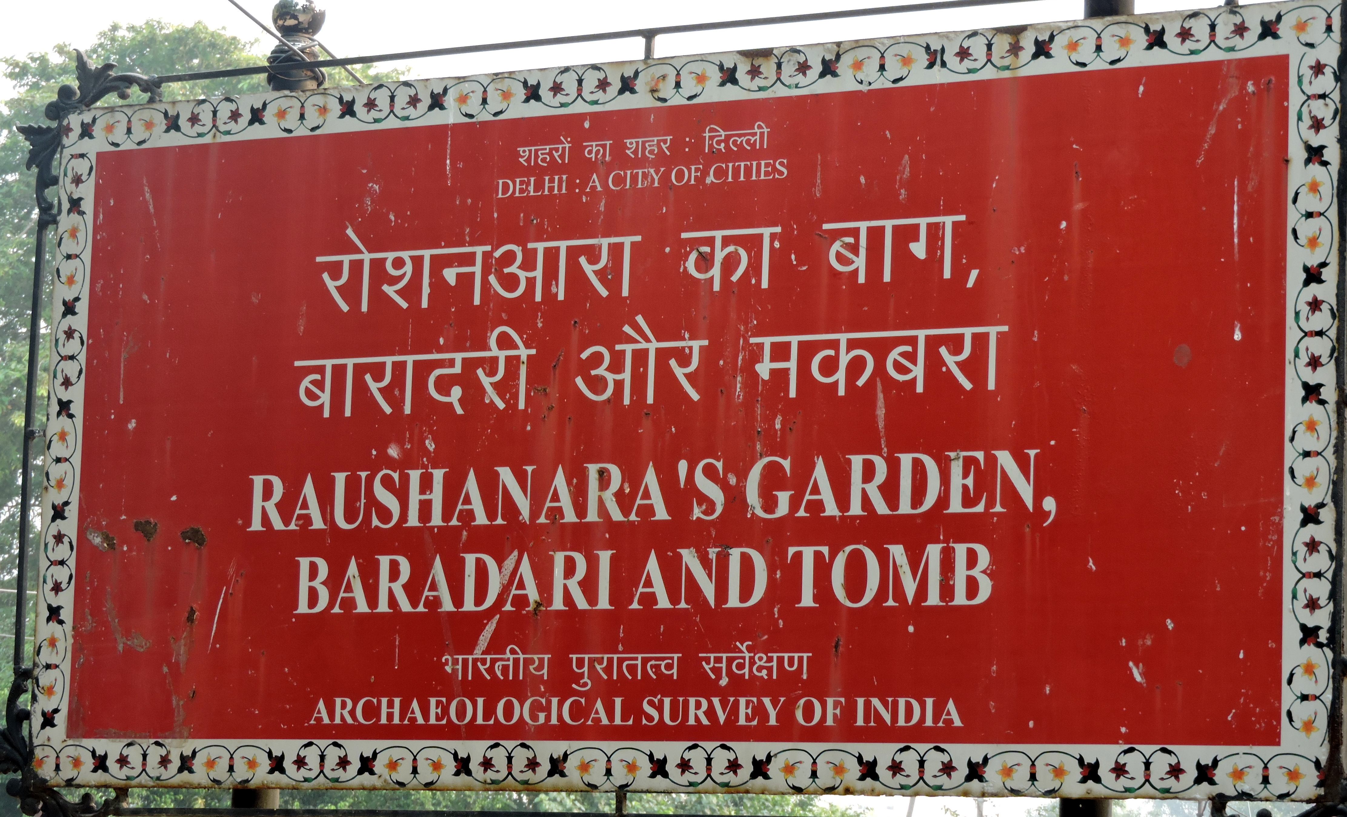 Display board of ASI,tomb of Roshanara Begum,north Delhi